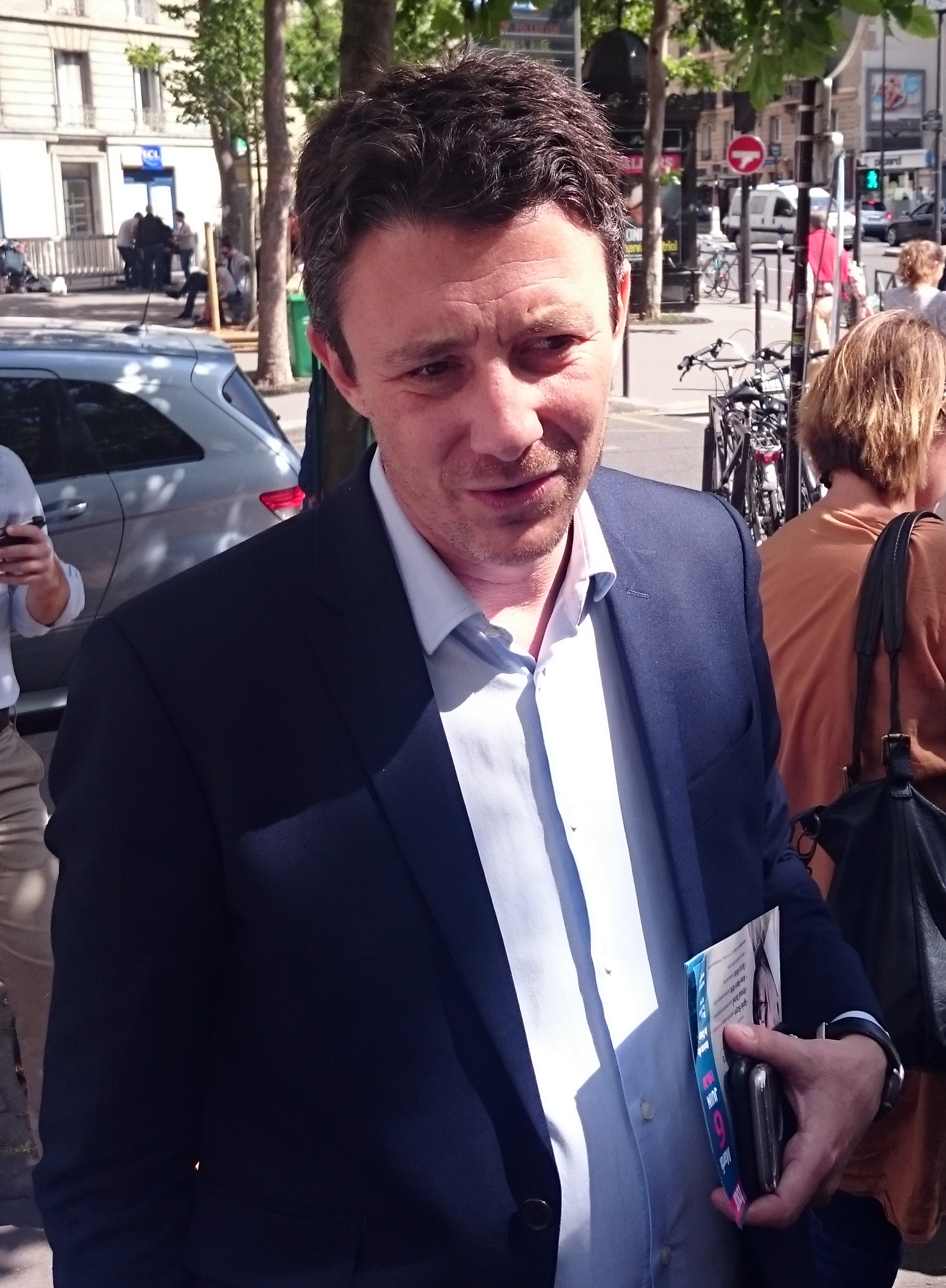 Benjamin Griveaux, French politician, Member of French Parliament for Paris, during the 2017 legislative election campaign